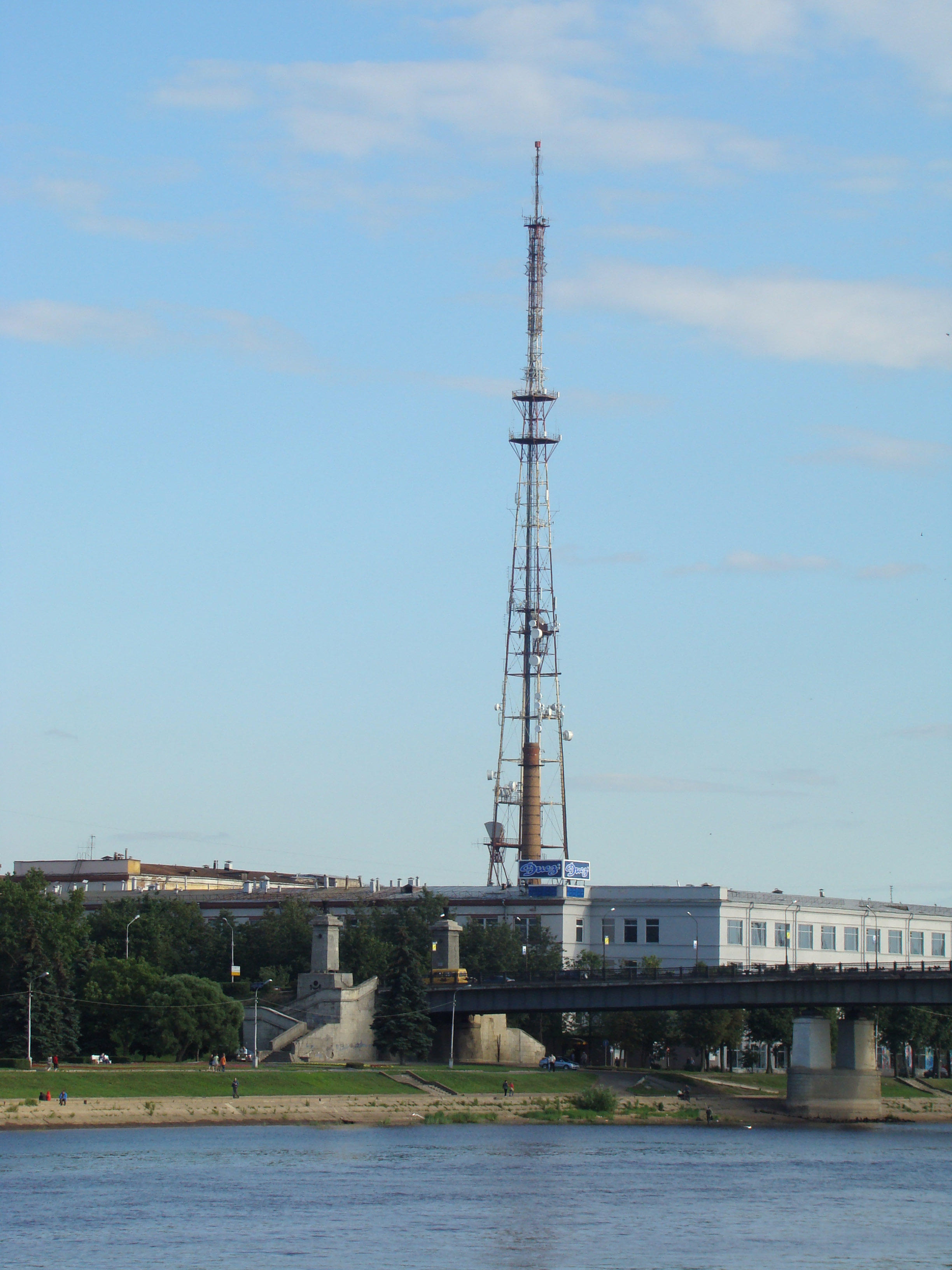 TV tower in Velikiy Novgorod, seen from the left bank of river Volkhov, across Alexander Nevsky bridge, approximately at the theater.